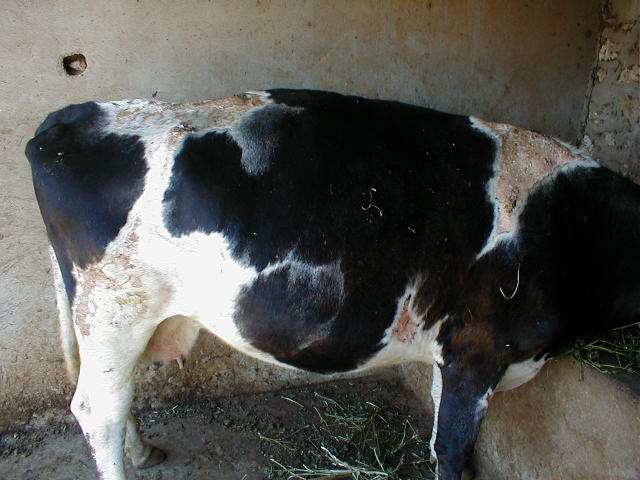 Photosensitization in a cow (unknown aetiology) : lesions limited to white skin. Walon: Fototinrûlijhaedje a ene cafloreye noere vatche : damadjes djusse so les blankès taetches.